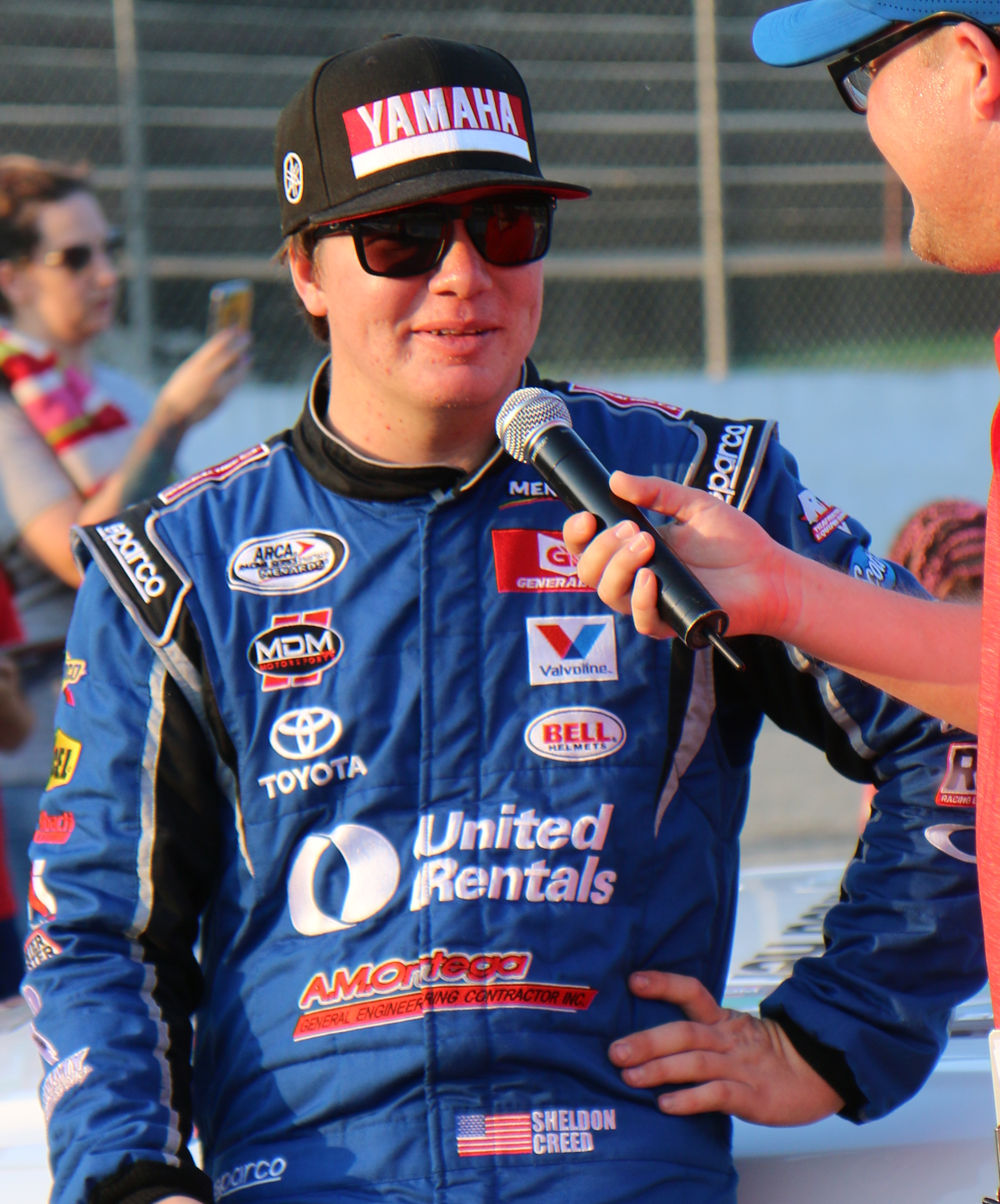 ARCA driver Sheldon Creed being interviewed by the track announcer at Madison International Speedway.